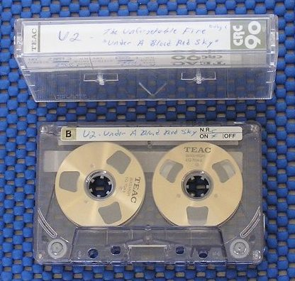 TEAC Cassette Tape CRC-90, looking like a reel-to-reel tape. I took this photgraph and license it as below.